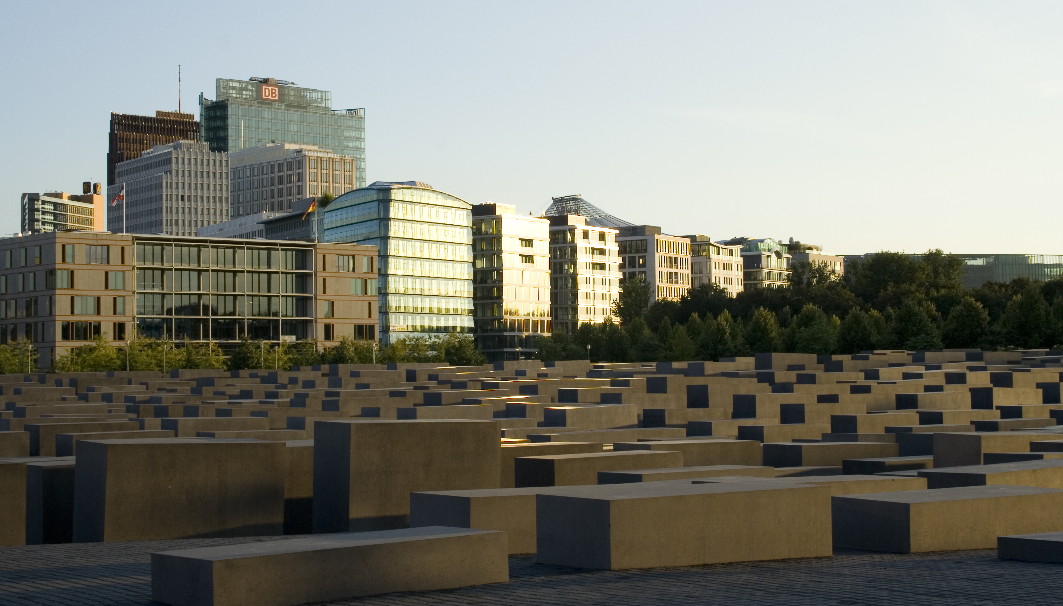 Holocaust Memorial in Berlin Germany. Comments are appreciated.